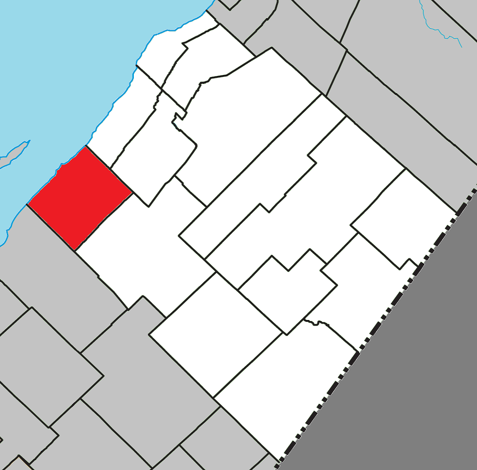 Location of L'Islet, Quebec within L'Islet Regional County Municipality.